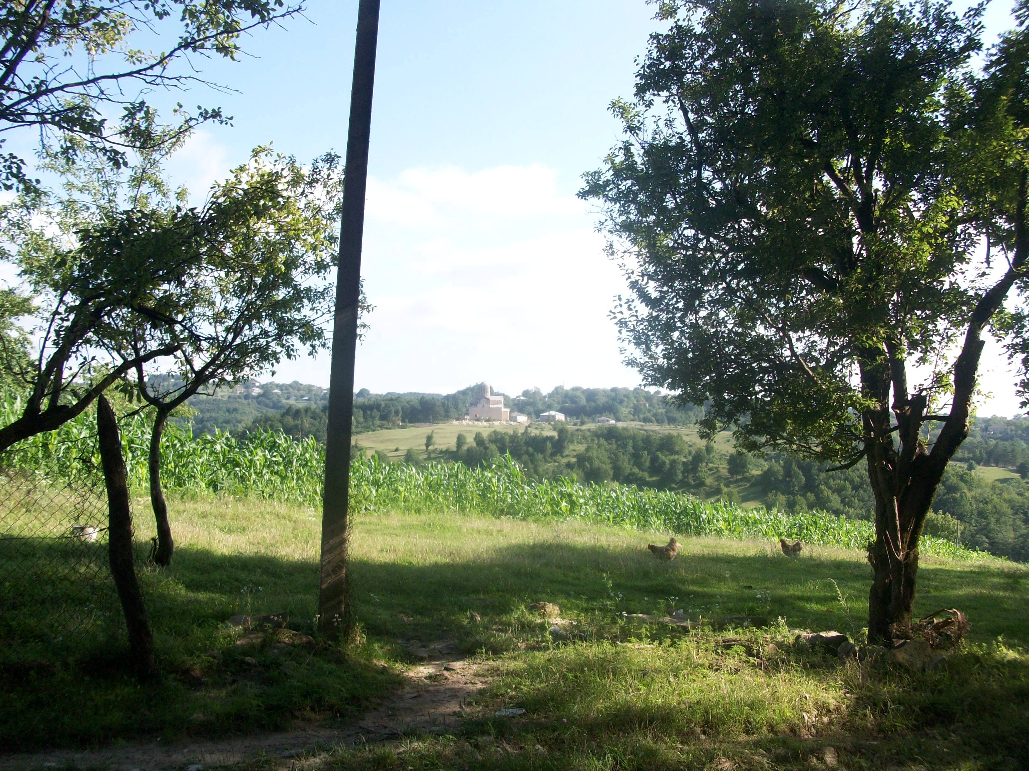 beretisa